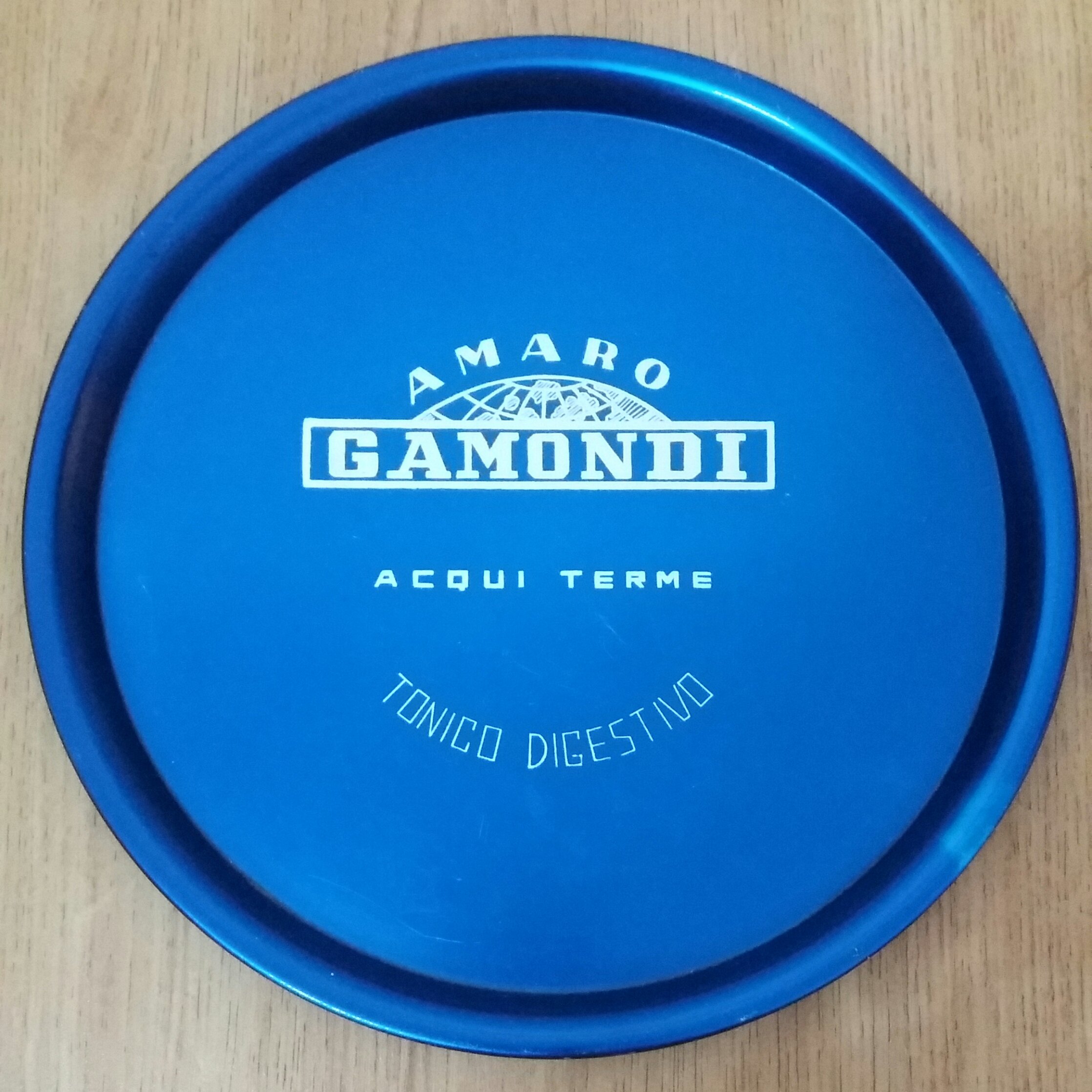 Tray of Amaro Gamondi